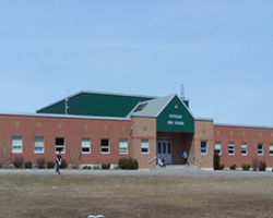 Rothesay High School